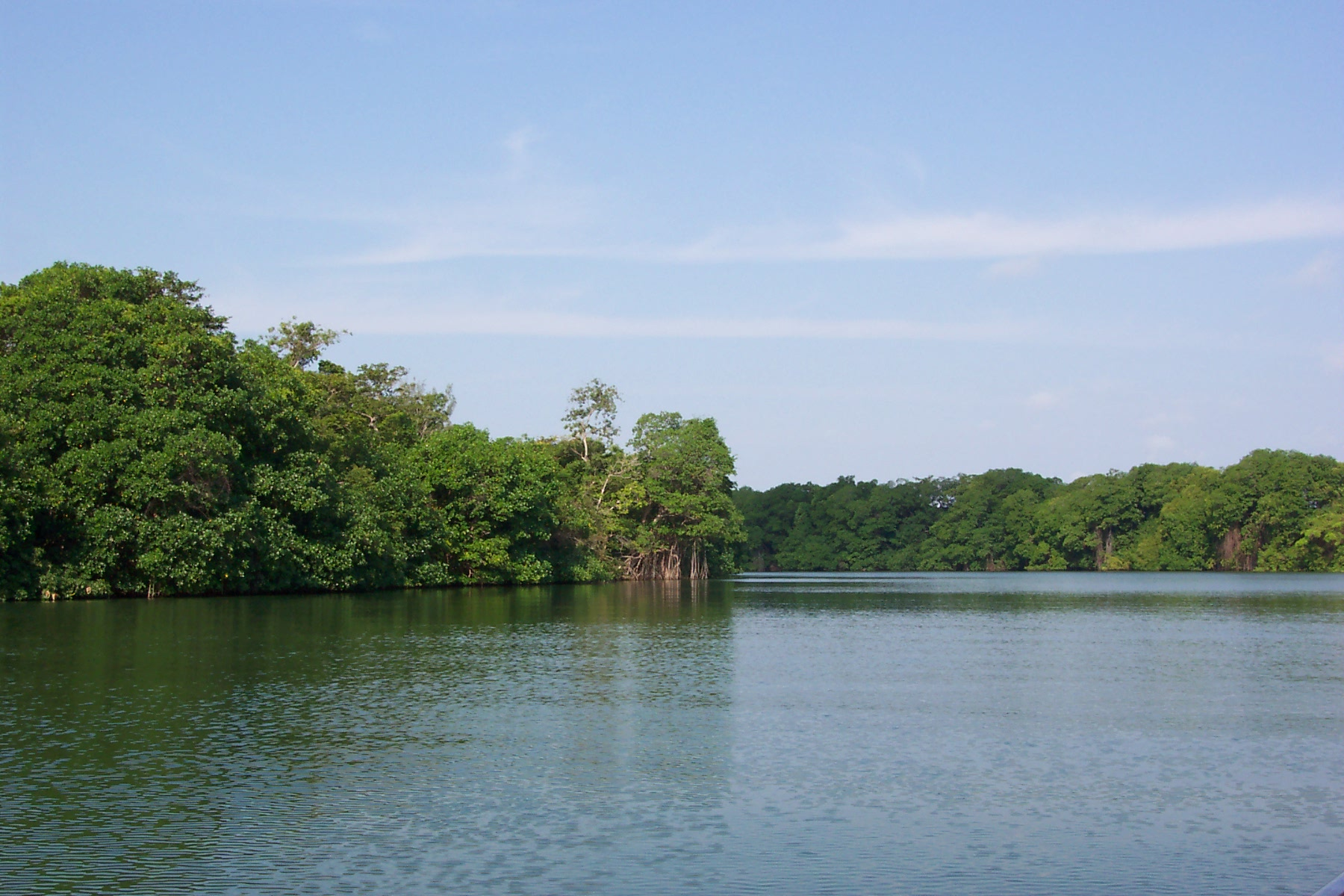 A picture of the Belize River.